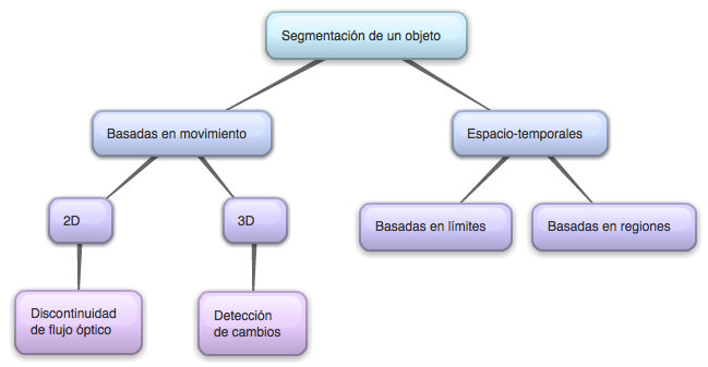 Esquema de las diferentes técnicas de segmentación.